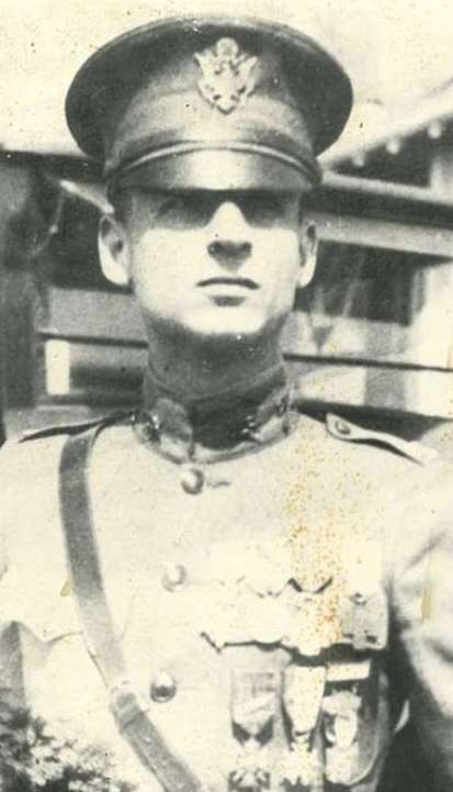 Captain Edward C. Allworth wearing the U.S. Medal of Honor, the WWI Victory Medal, the French Ordre national de la Légion d'honneur in the degree of Knight, the Italian Croce al Merito di Guerra, the French Croix de guerre with bronze palm and two WWI commemorative medals.